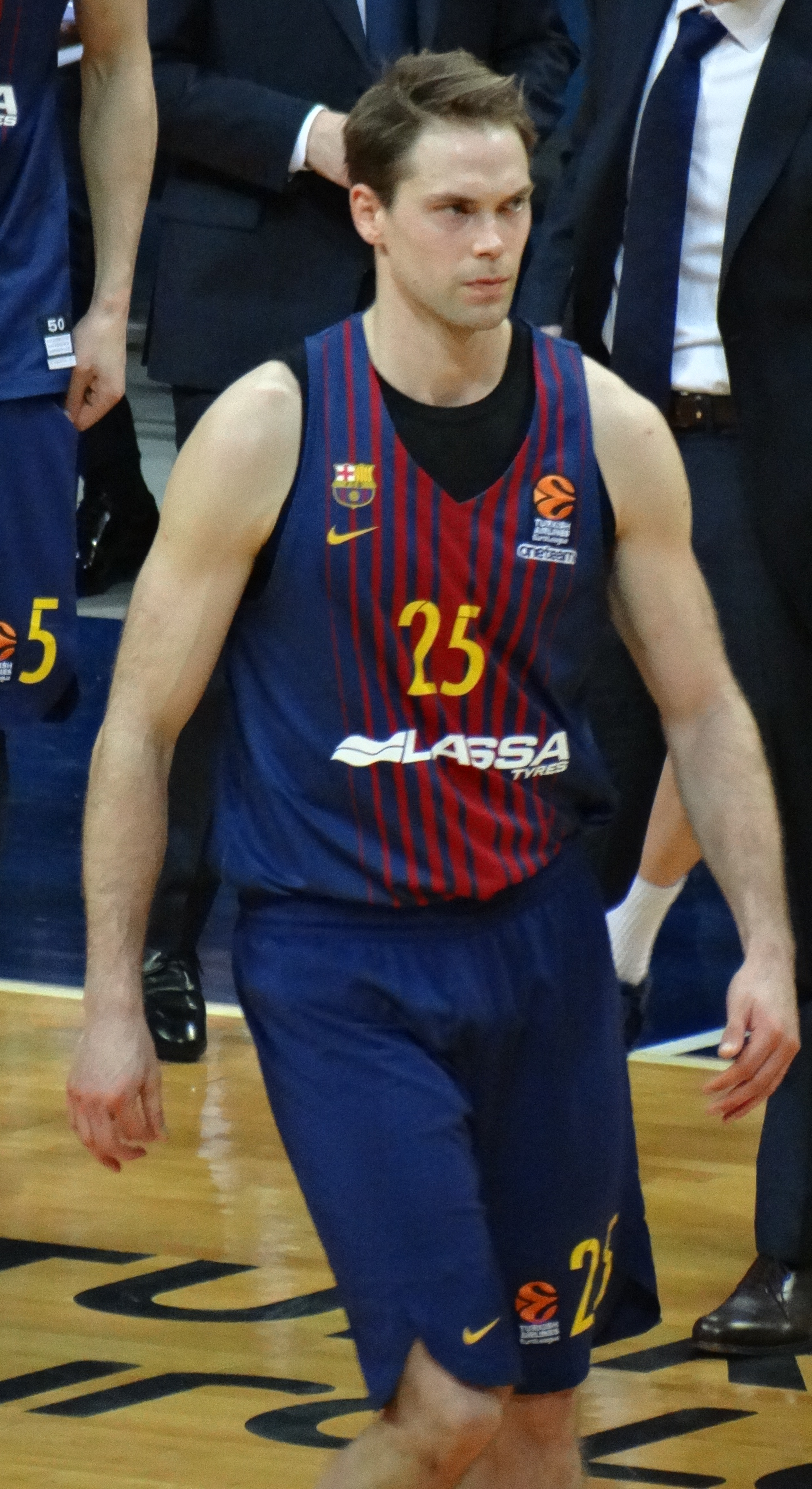 Petteri Koponen 25 FC Barcelona Bàsquet 20180126